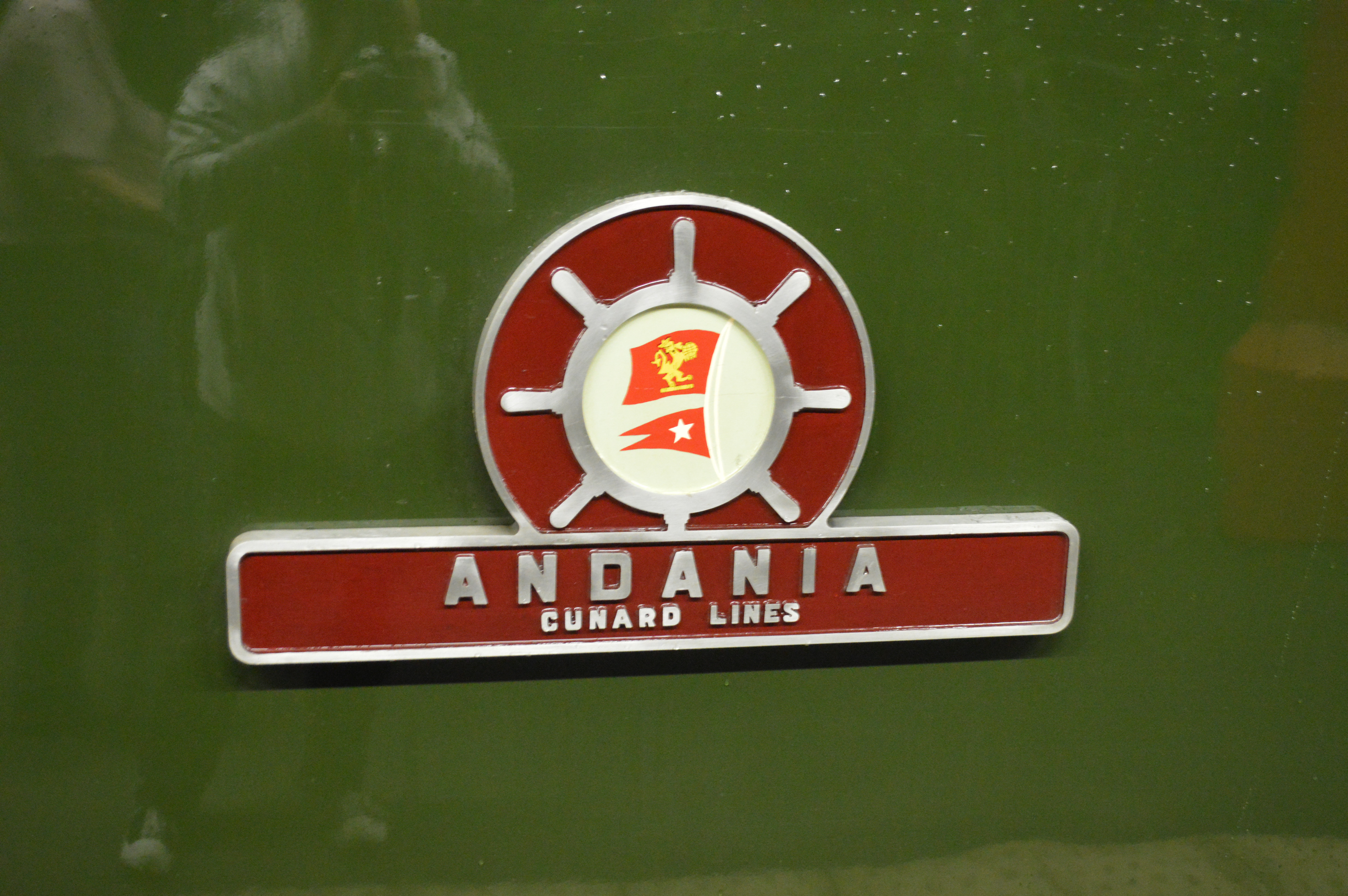 D213's Andania nameplate while waiting for the right away from Crewe.